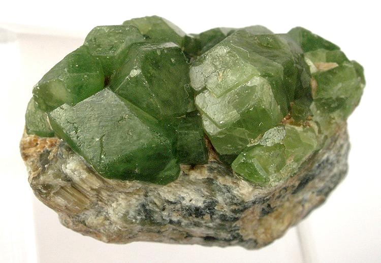 Andradite (Var.: Demantoid) Locality: Korkodinskoe (Karkodinskoe; Novo-Karkodinskoe) demantoid deposit, Korkodin, Chelyabinsk Oblast', Southern Urals, Urals Region, Russia (Locality at ) Size: 3.4 x 2.0 x 1.9 cm. Sharp, lustrous, translucent, apple-green demantoid garnet crystals richly and attractively cover matrix on this very fine specimen from an uncommon locality in the Ural Mountains of Russia - Kakodino. The crystals reach 1.3 cm.